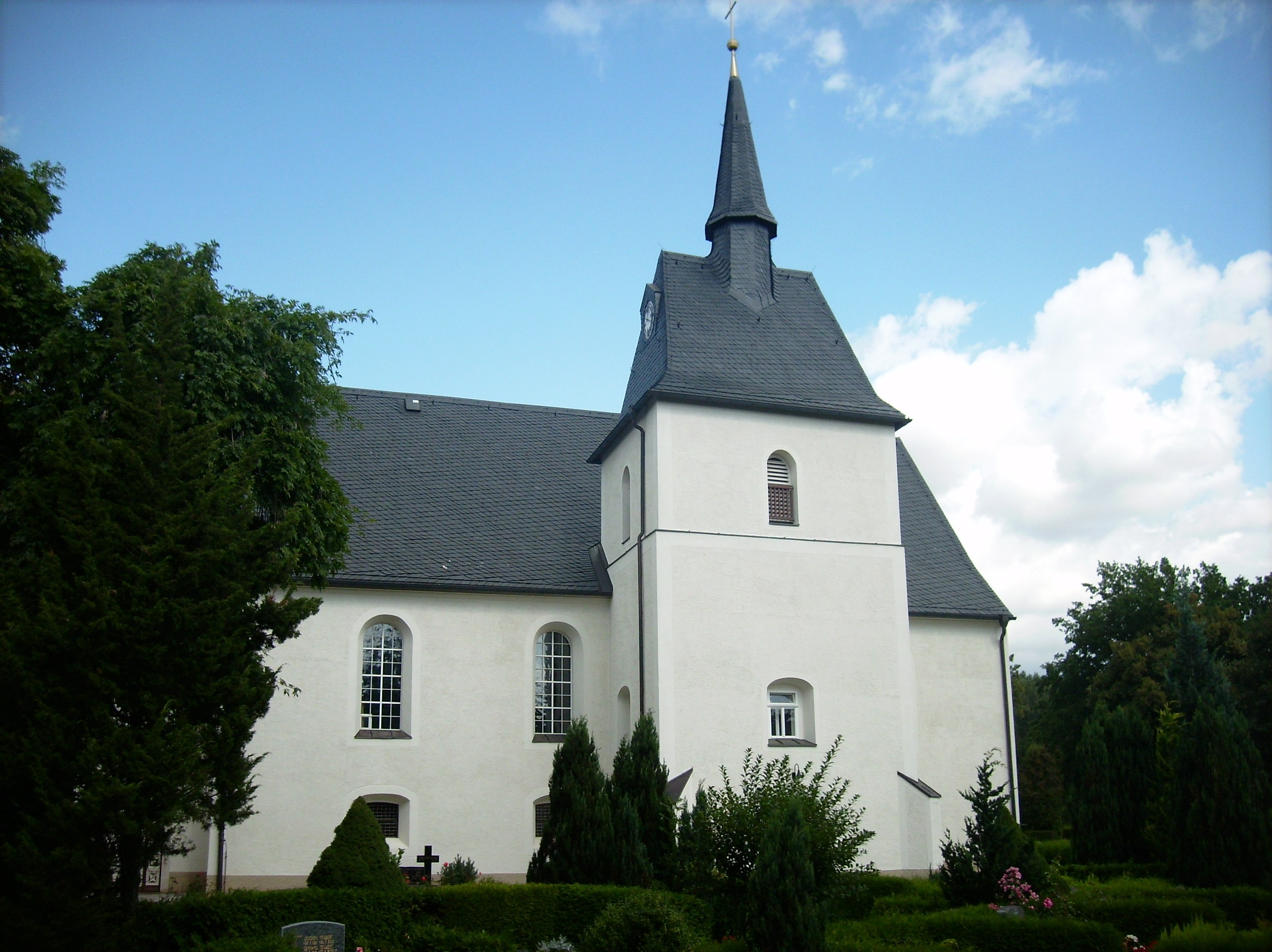 Lutheran church of Sankt Egidien (Zwickau district, Saxony)